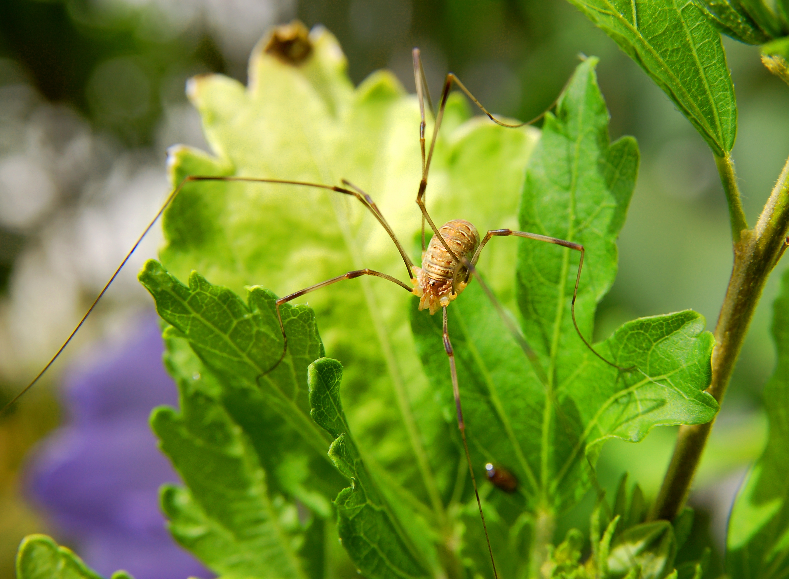 Arachnida, Opiliones, Harvestman. Opilio canestrinii, probably sub-adult female